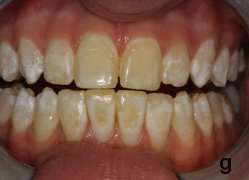 amelogenesis imperfecta, hypomaturation type. The enamel has normal thickness and hardness but it's with a white-ish surface. They may be mistaken for fluorosis.